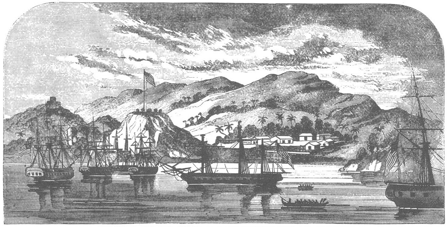 United States Navy Commodore David Porter's fleet off Nuku Hiva in October 1813.